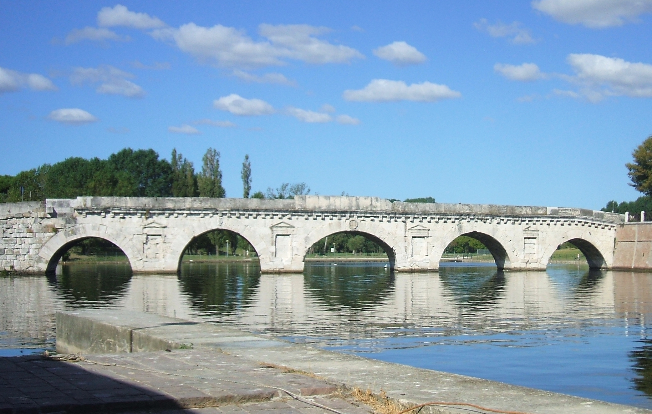 Ponte di Tiberio in Rimini, Italy